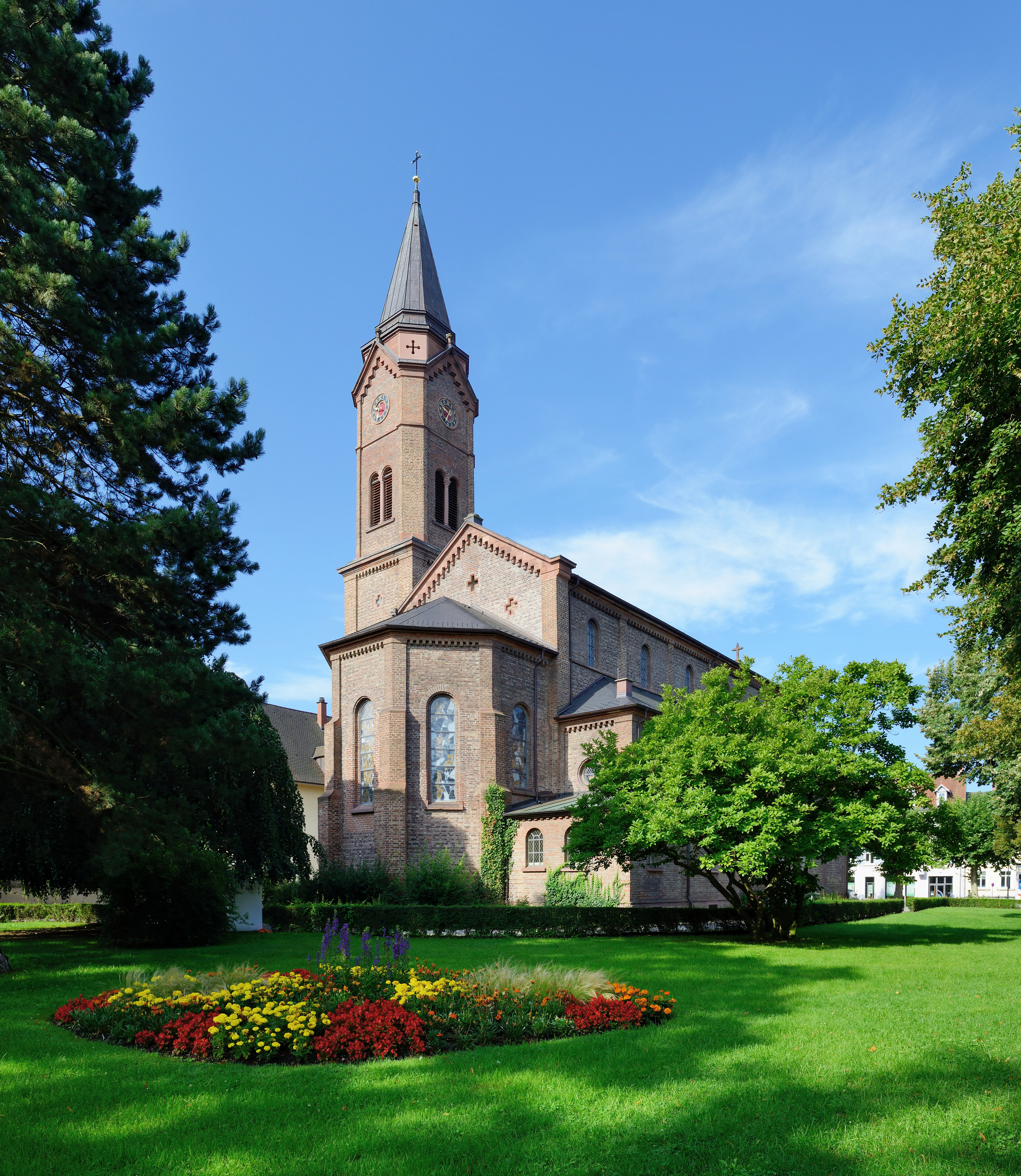 Lörrach: Church of Saint Bonifatius